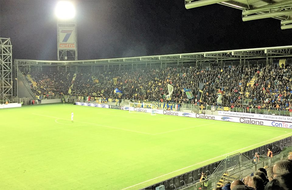 Benito Stirpe Stadium, North Stand (Frosinone-Ternana 4-2, 14/10/2017)